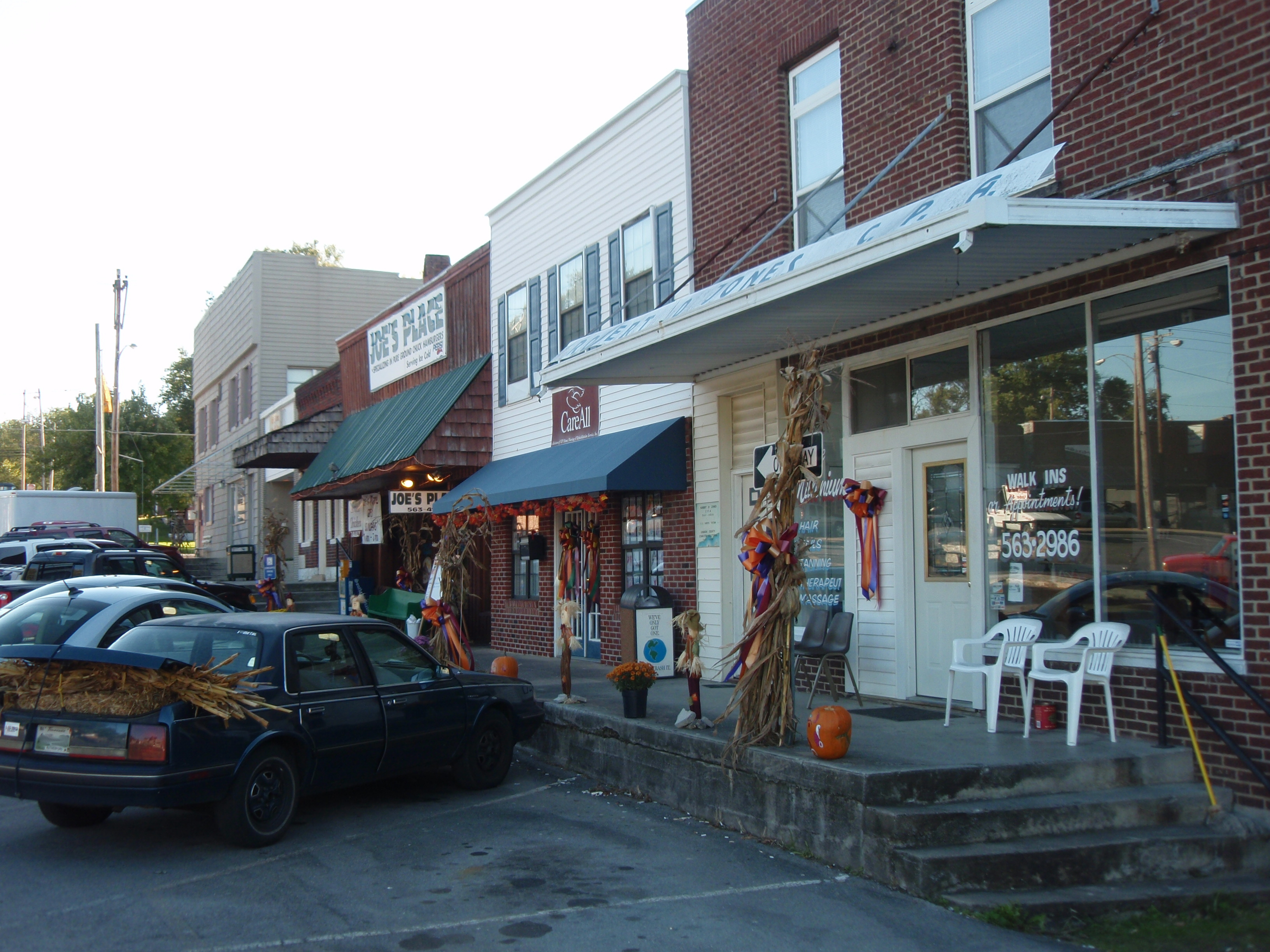 Stores in Woodbury, Tennessee